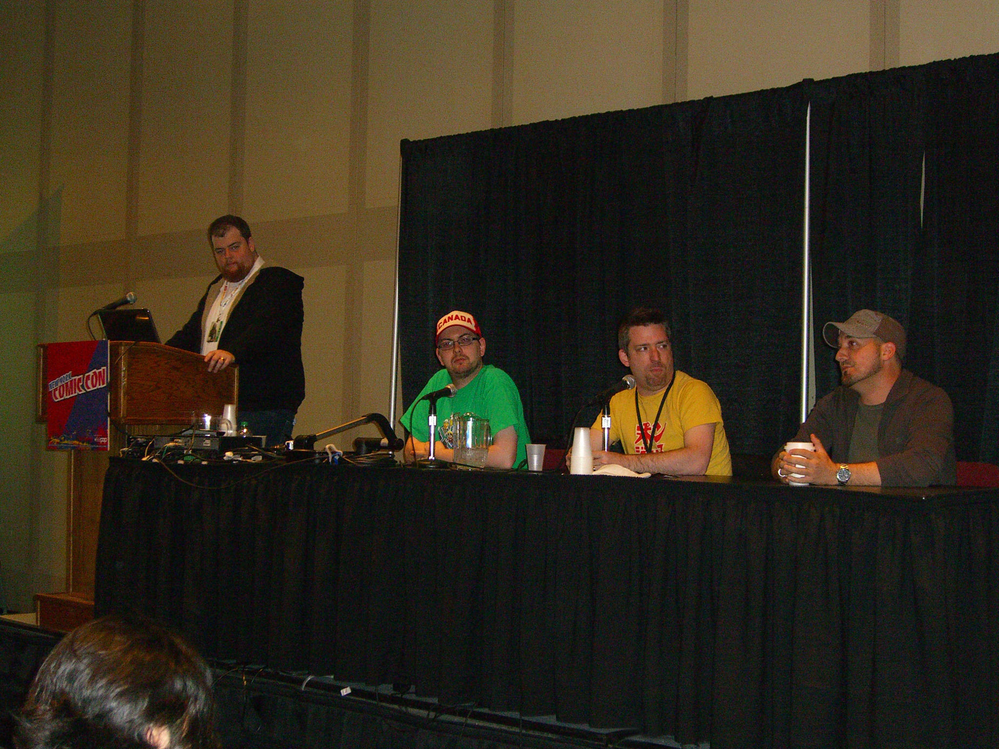 UDON panel on Day 2 of the 2012 New York Comic Con, Friday October 12, 2012 at the Jacob K. Javits Convention Center in Manhattan. From left to right are UDON Director of Marketing Chris Butcher (emceeing at the podium), Managing Editor Matt Moylan, Project Manager Jeff Zubkavich and artist Omar Dogan. This photo was created by Luigi Novi. It is not in the public domain, and use of this file outside of the licensing terms is a copyright violation.